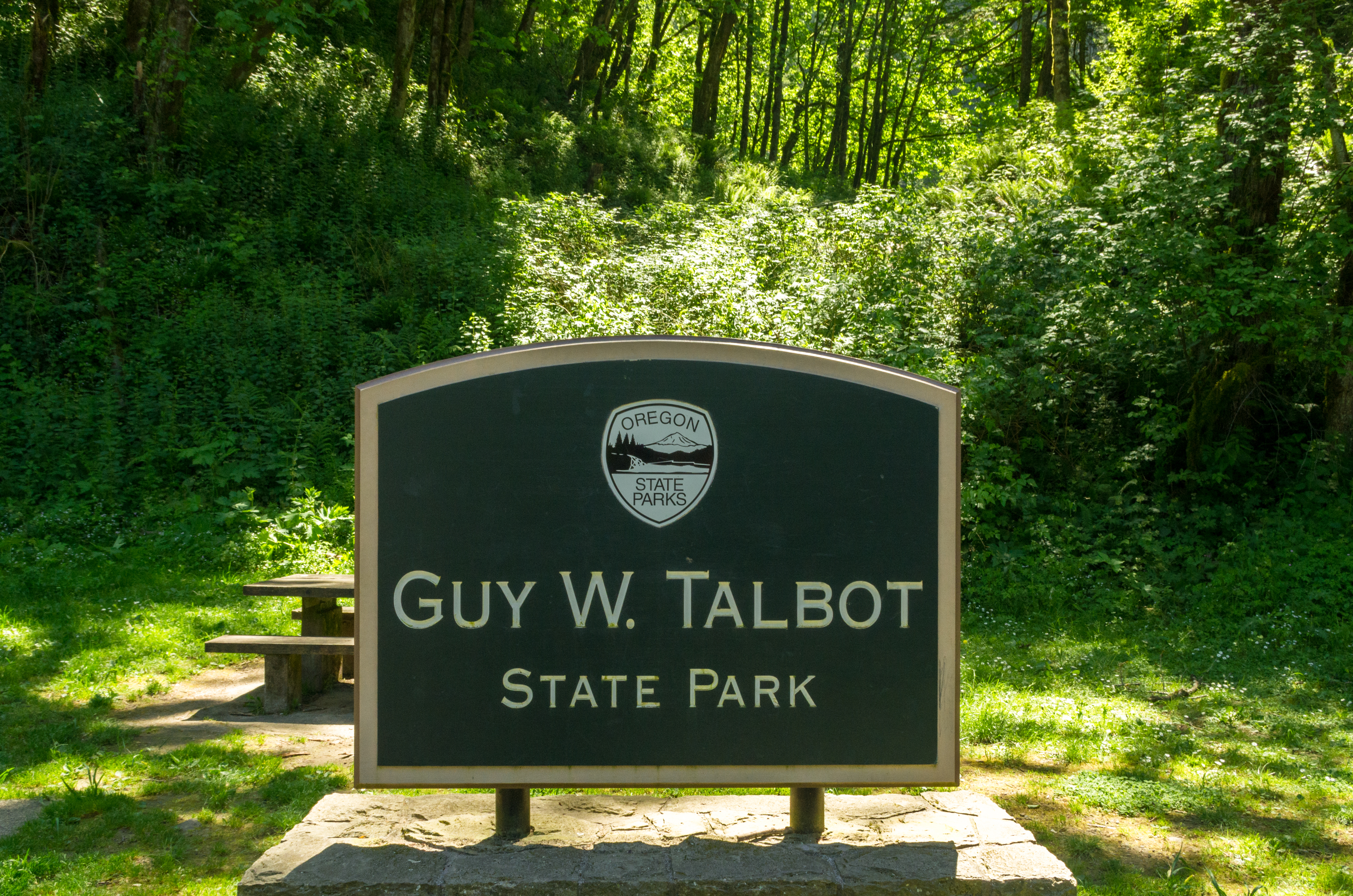 "Oregon visit" Oregon "United States" "Cascade Range" Cascadia "western Cascades" "Pacific Northwest" "National Scenic Area" "Portland OR" "Multnomah County" "sunny and clear" spring midday "blue sky" spring overlook vista outing sightseeing "Historic Columbia River Highway" "Guy Talbot State Park" "Latourell Falls" "picnic area" "riparian forest" sign signage logo